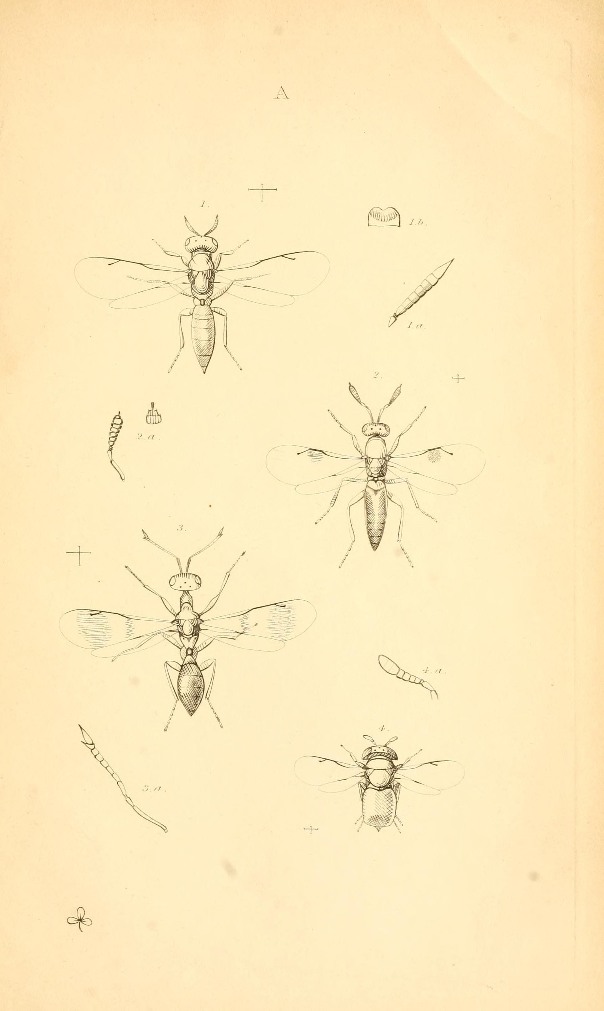 Plate A 1 Merisus splendidus Fem Entomological Magazine 2:166-167 a Antenna b Prothorax 2 Rhaphitelus maculatus Fem Monographia Chalciditum.Entomological Magazine 2:179 a Antenna 3 Notanisus versicolor Fem Monographia Chalciditum.Entomological Magazine 4: 352 a Antenna 4 Eunotus cretaceus Mas Monographia Chalciditum.Entomological Magazine 2:297 a Antenna Taxonomy Merisus splendidus Walker, 1834 (Pteromalidae: Pteromalinae) Neotype, designated by Graham 994c:100, deposited in The Natural History Museum, London SW7 5BD, England. Type locality: France. Rhaphitelus maculatus Walker, 1834 (Pteromalidae: Pteromalinae) Rhaphitelus maculatus Walker, 1834:179. Holotype female, deposited in The Natural History Museum, London SW7 5BD, England. Type locality: United Kingdom. Notanisus versicolor Walker, 1837 (Pteromalidae : Cleonyminae) Eunotus cretaceus Walker, 1834 (Pteromalidae: Eunotinae) Eunotus cretaceus Walker, 1834:298. Lectotype female, designated by Graham969:72, deposited in The Natural History Museum, London SW7 5BD, England. Type locality: United Kingdom.